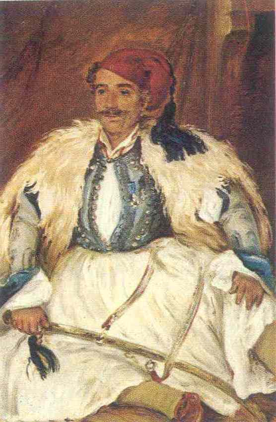 Painting depicting Zachos Milios, Revolutionary and officer of the Greek army. 19th century from Himara.